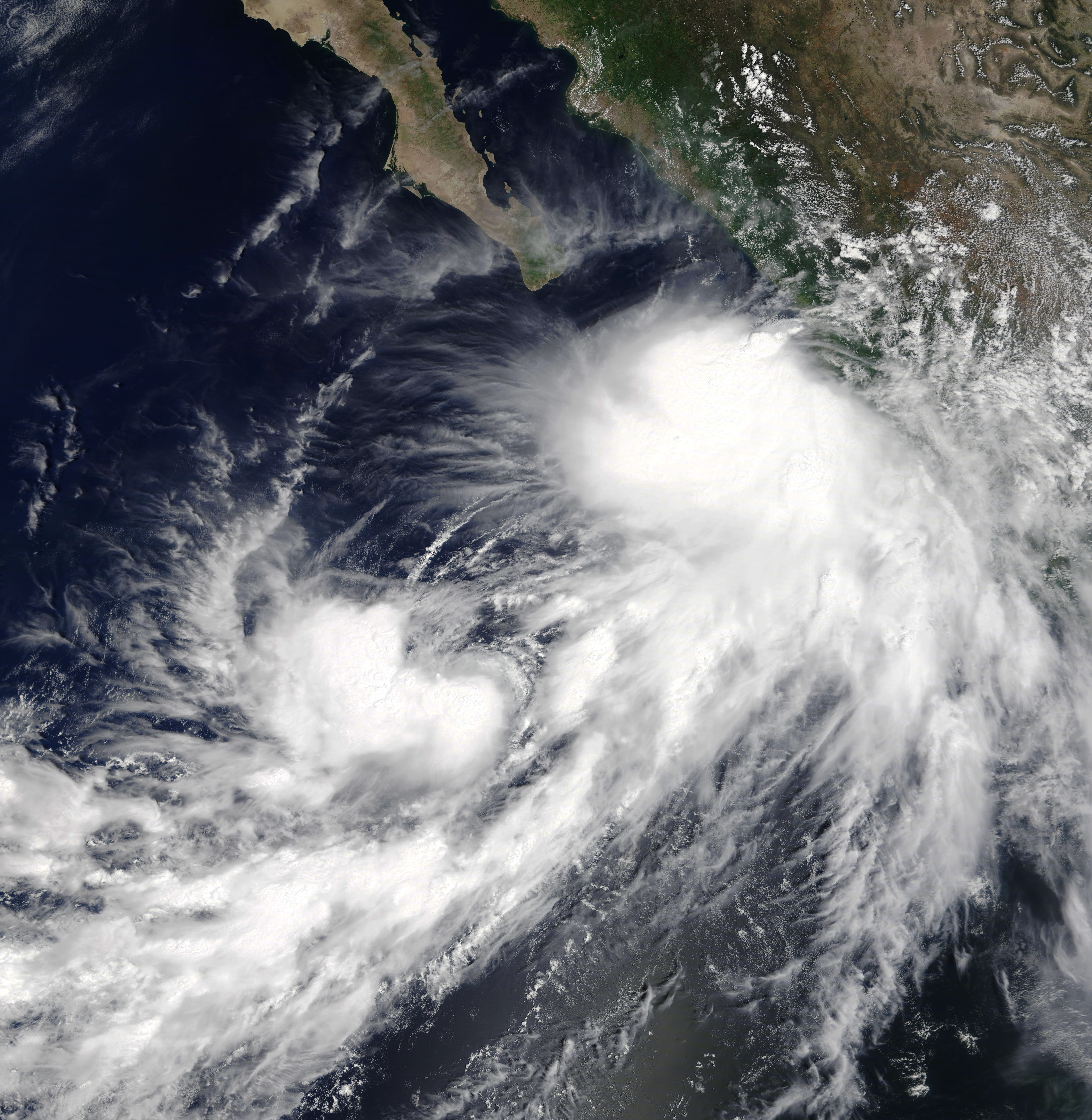 Tropical storms Mario and Lorena on September 19, 2019